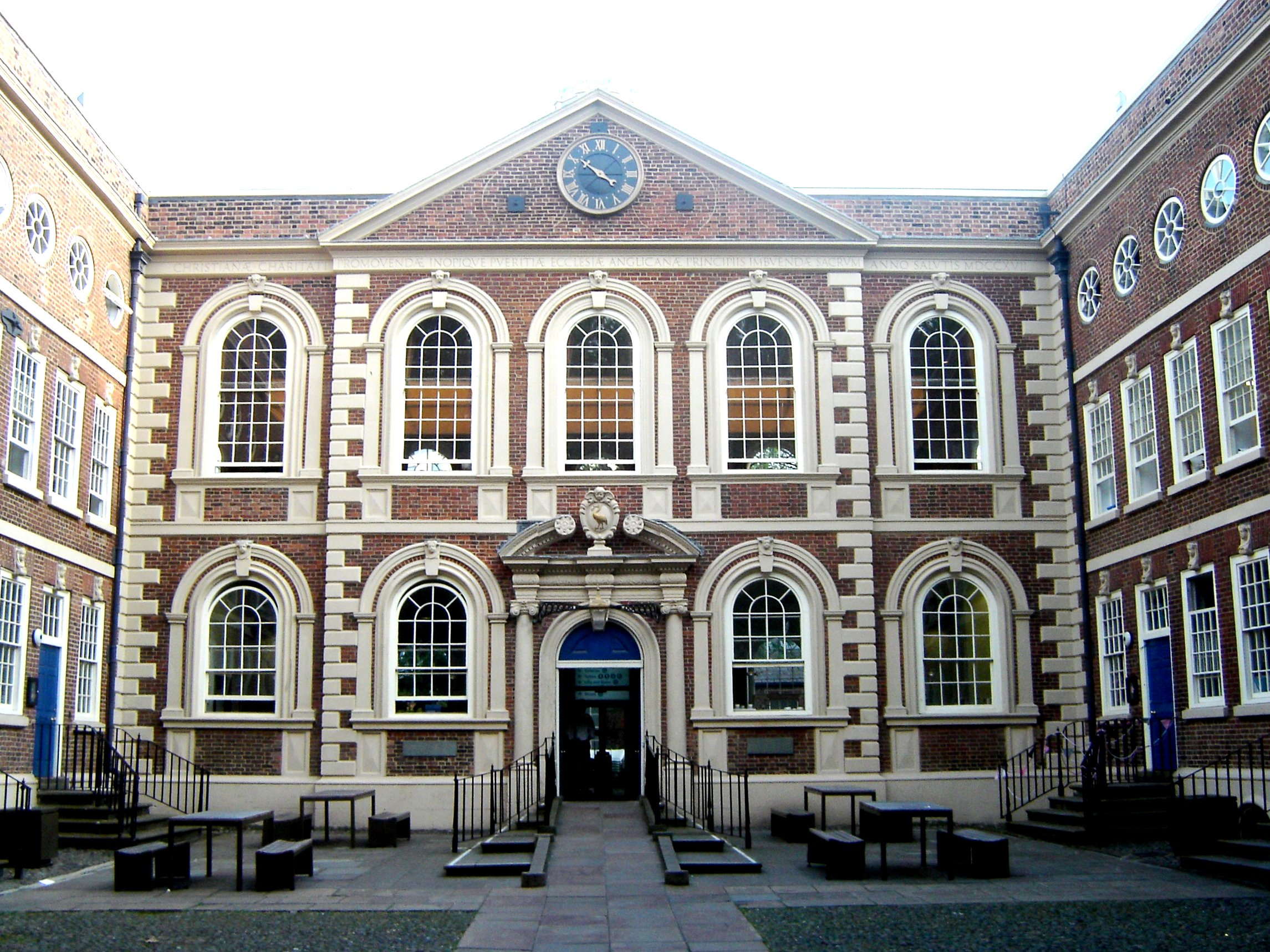 Just because it's nice - Bluecoat Chambers, built as a charity school in 1717, now it's an Arts' Centre.